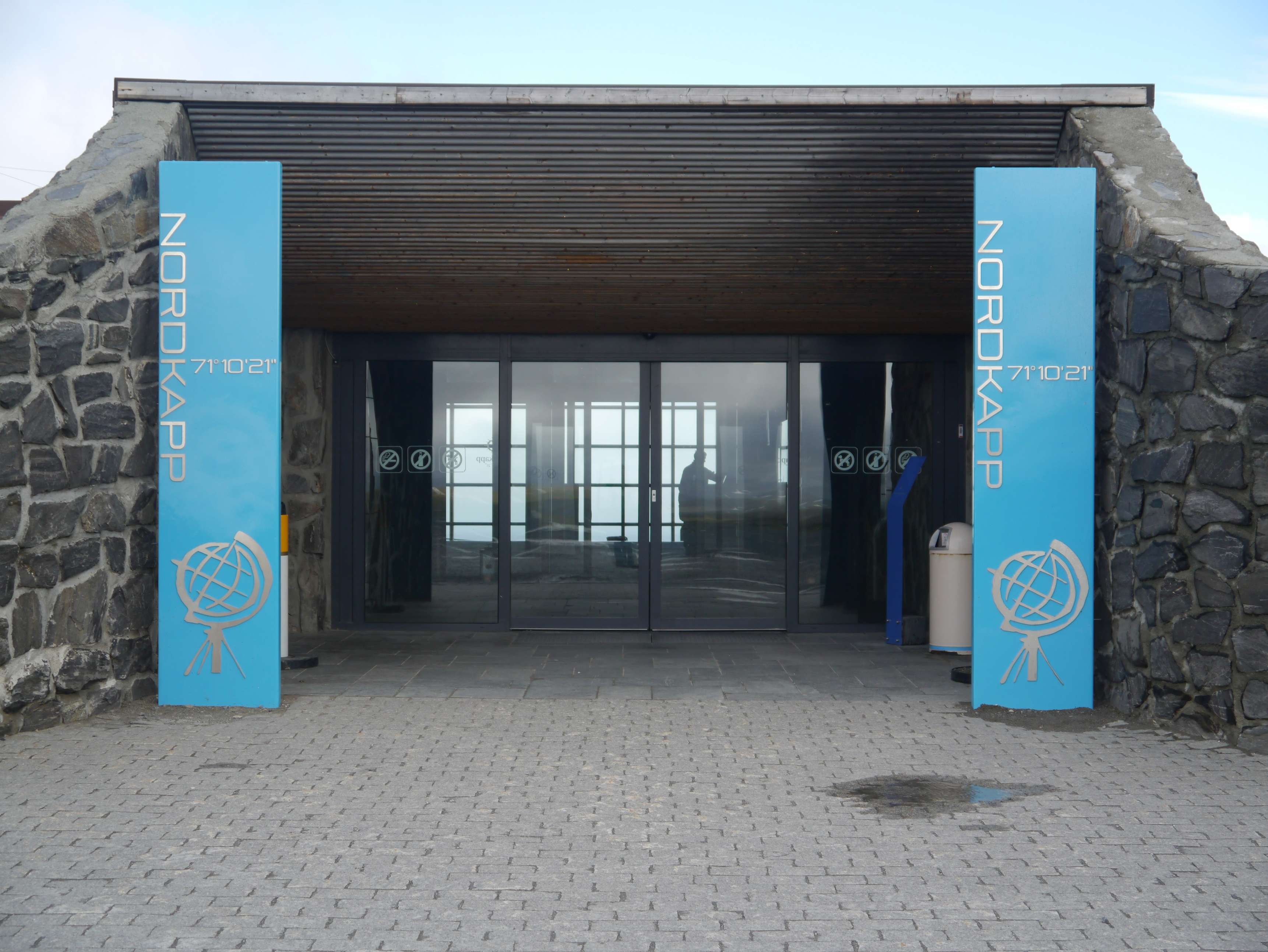 Entrance of the North Cape hall, Mageröya Island, Finnmark Province, Northern Norway